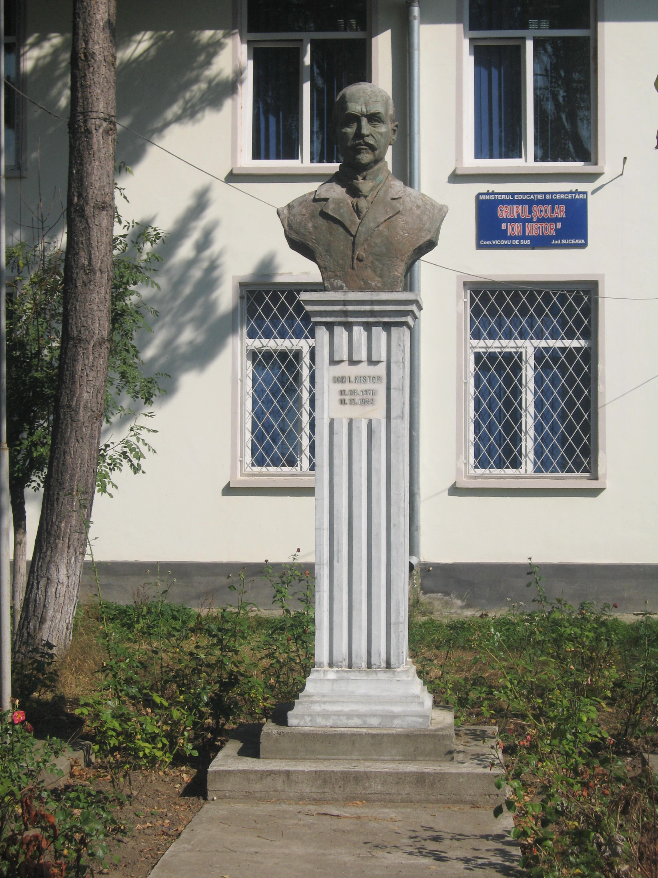 Bustul lui Ion Nistor din Vicovu de Sus